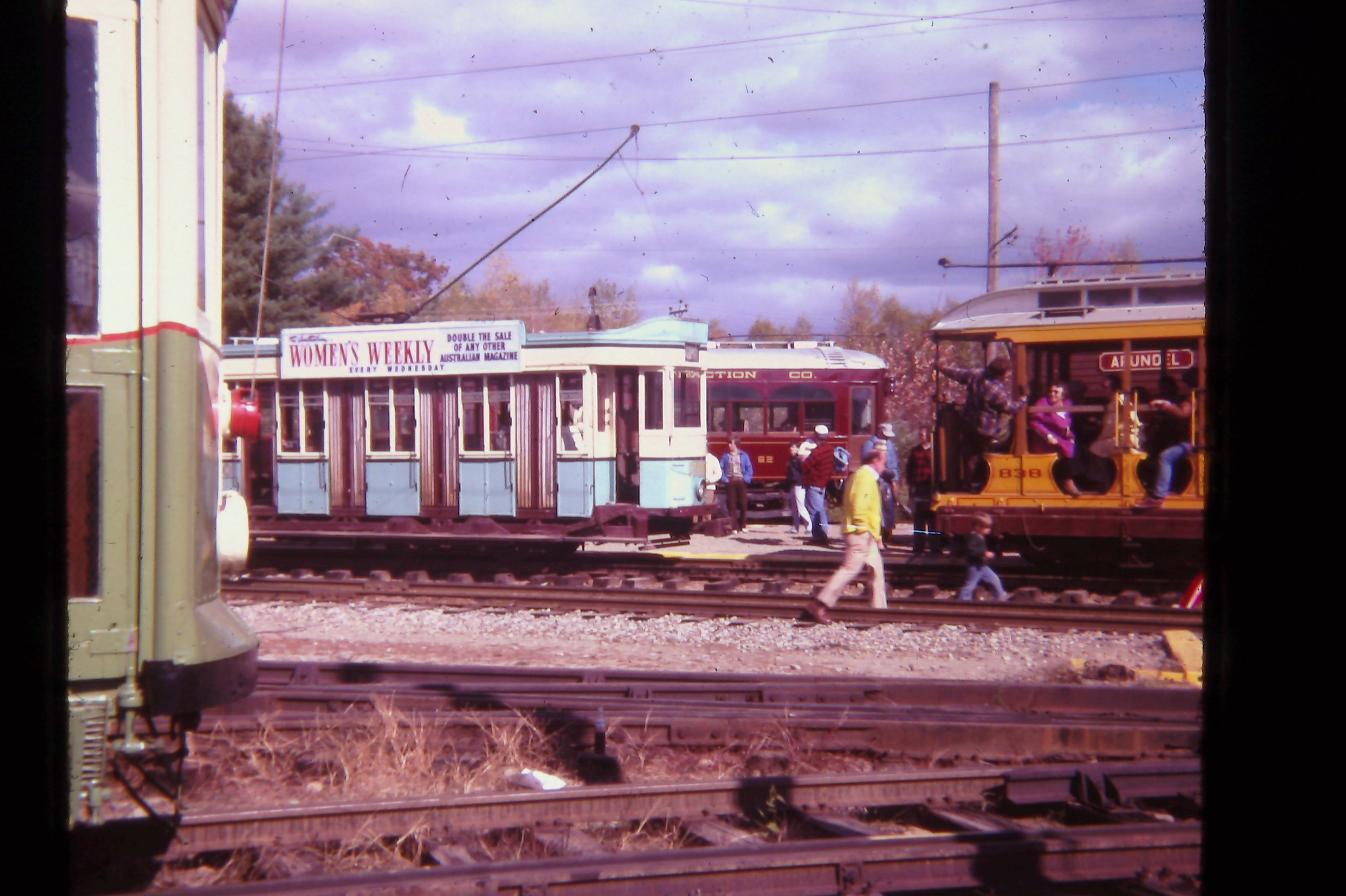 Cars #434 (Dallas, Texas), #1700 (Sydney, Australia), #62 (Philadelphia, Pennsylvania), and 838 (New Haven, Connecticut) at Seashore Trolley Museum in 1979